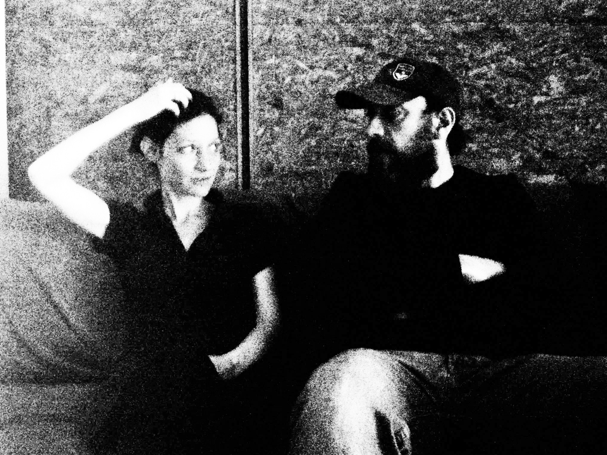 Ruth Rosenthal and Xavier Klaine